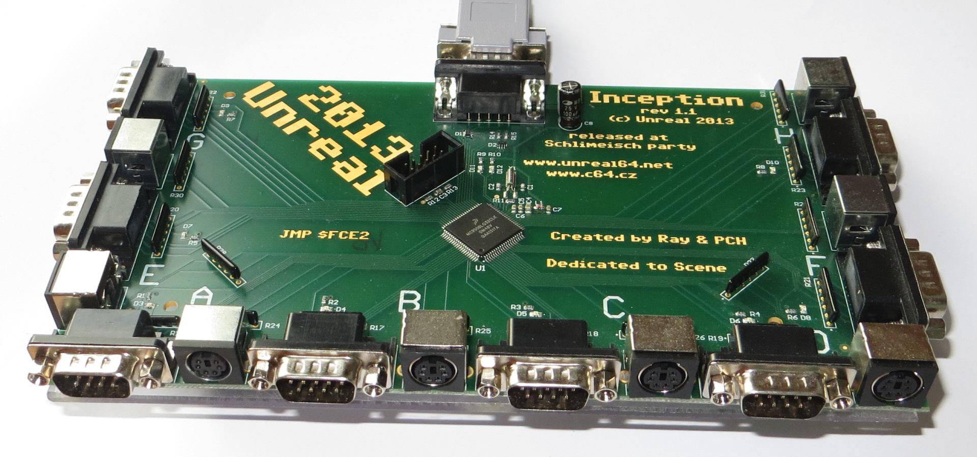 This adapter for 8 additional joysticks can be connected to the control port of the C64/128.